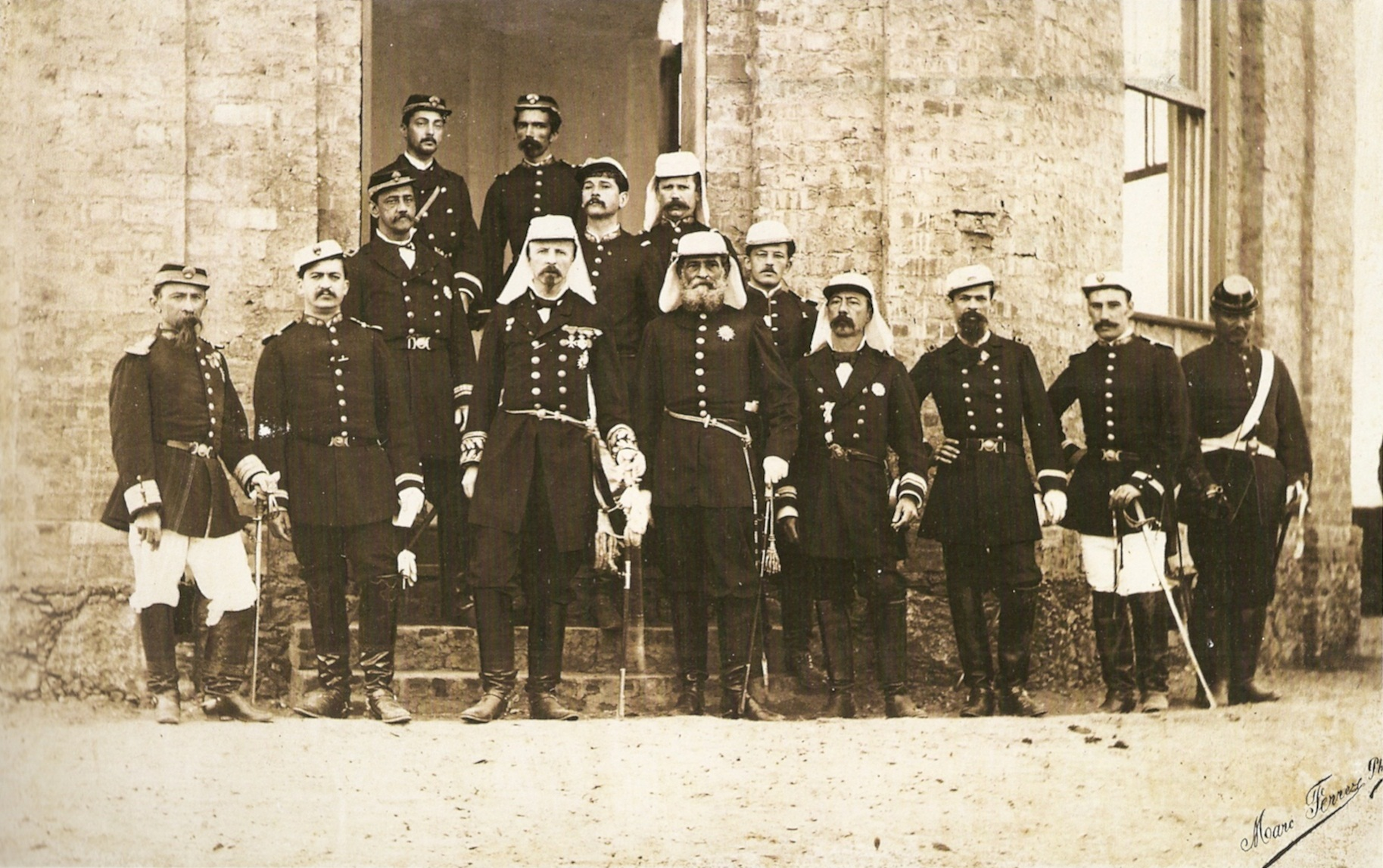 Gaston of Orléans, Count of Eu (first row, third from left to right), Field Marshal Deodoro da Fonesca (first row, fourth from left to right) and other Brazilian Army officers, c.1885.